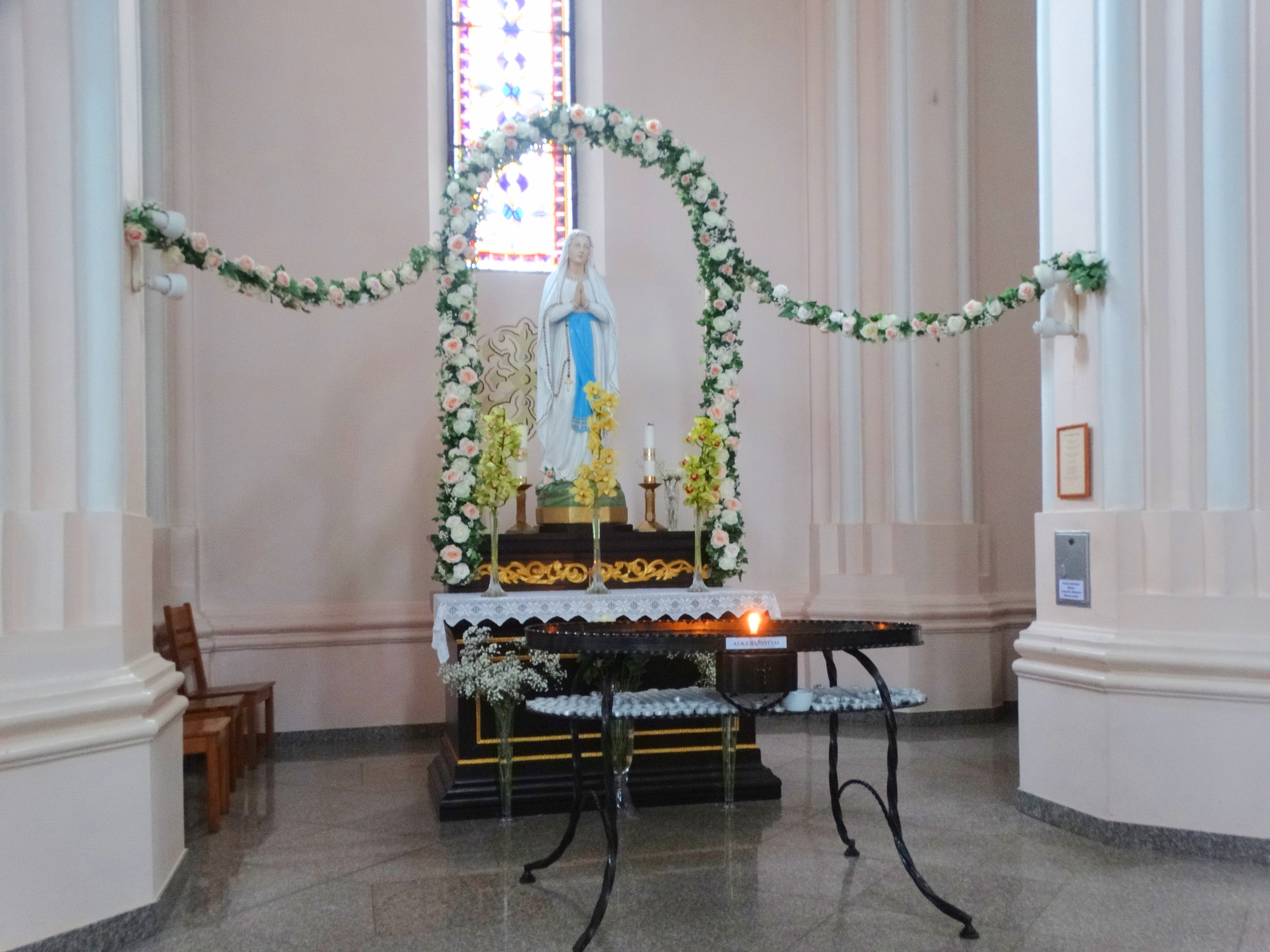 True statue of St. Mary, formerly standing in the Lourdes grotto of Plunge, now in tha Catholic church, Plungė, Lithuania